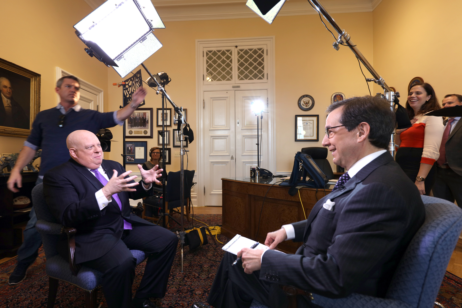 Television Interview with Chris Wallace by Steve Kwak at Governor’s Office, 100,State Circle, Annapolis Maryland 21401